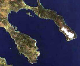 Satellite picture of Gulf of Singiticus, Greece.